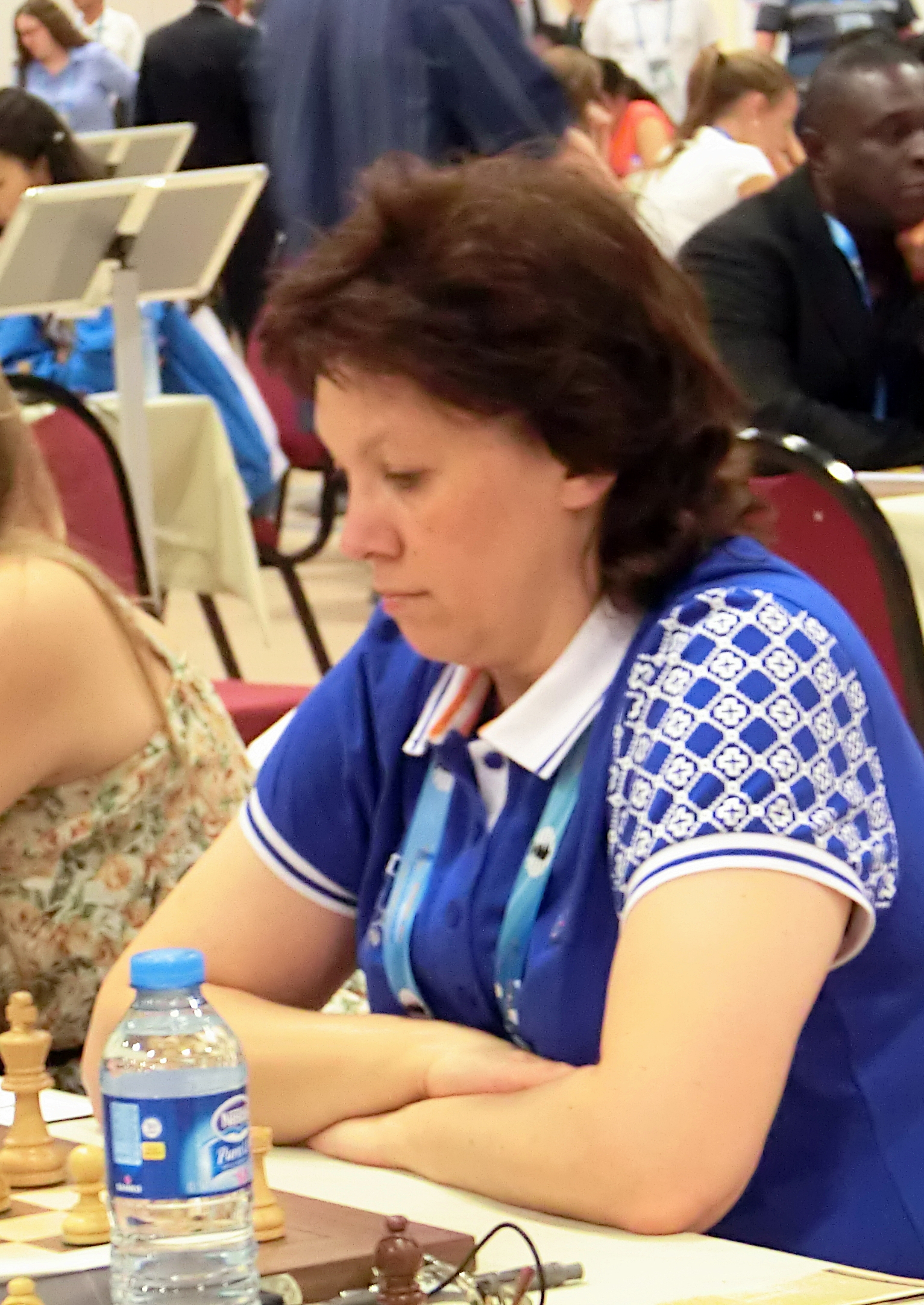 Monika Tsiganova, chess player from Estonia